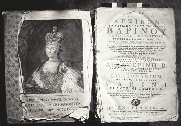 Catherine II of Russia in the "Varinos Dictionary"